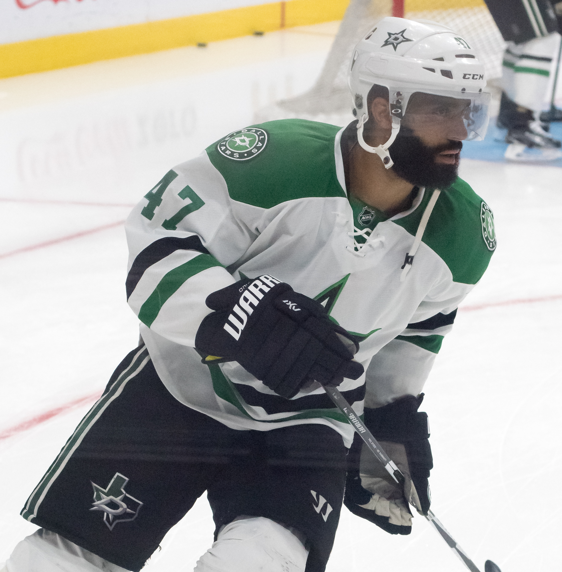 Oduya with the Stars